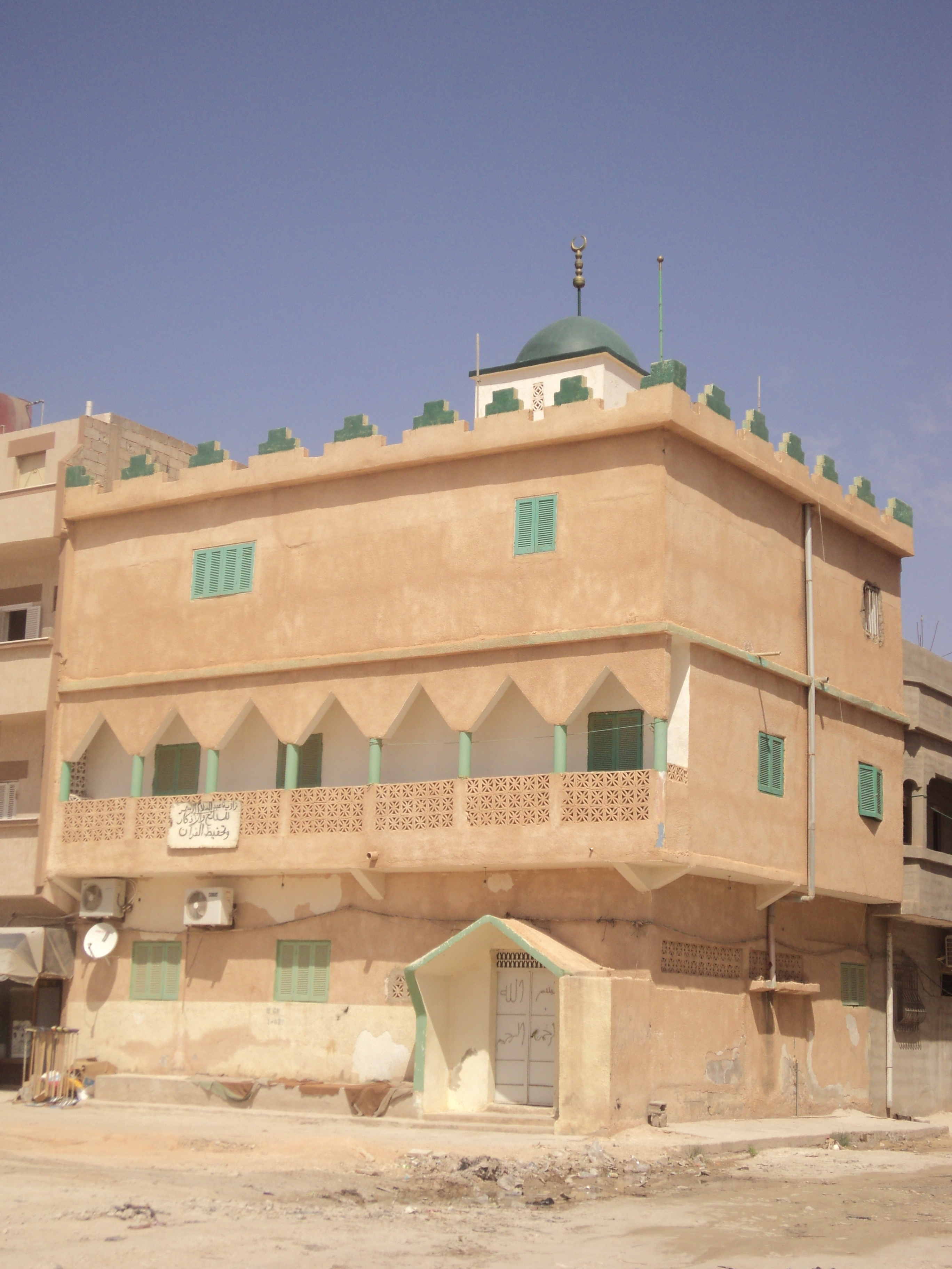 Zawiat Abdussalam al Asmar for learning Koran, Benghazi.